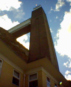 Photograph of the Marsden Grotto lift shaft from the terace.